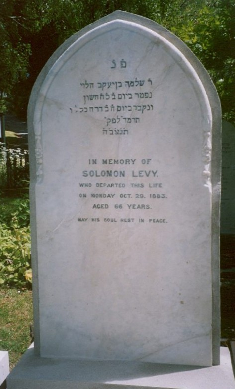 Solomon Levy's gravestone, restored by the city of Wellington after it was vandalized